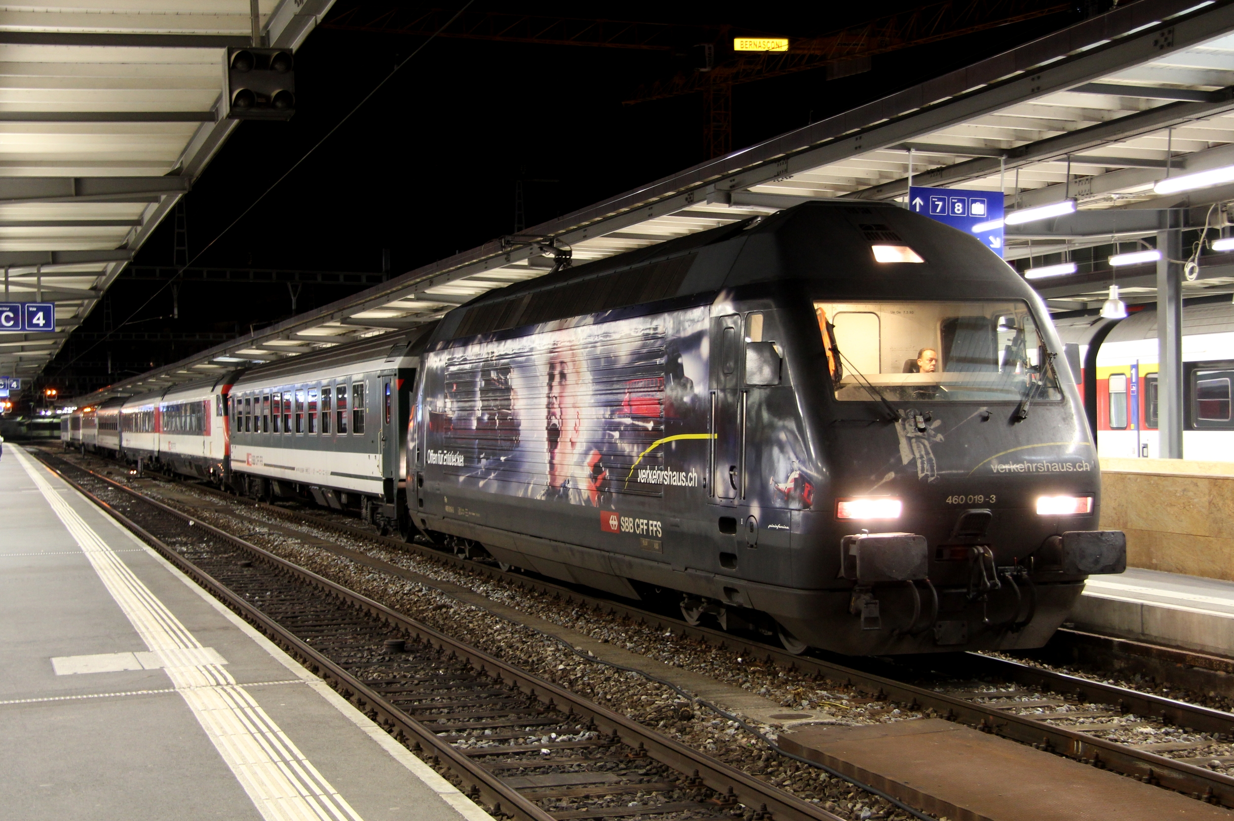 SBB Re 460 019-3 with the third version of the advertisement for the Swiss Museum of Transports, "Verkehrshaus. Offen für Entdecker / Ouvert aux explorateurs".